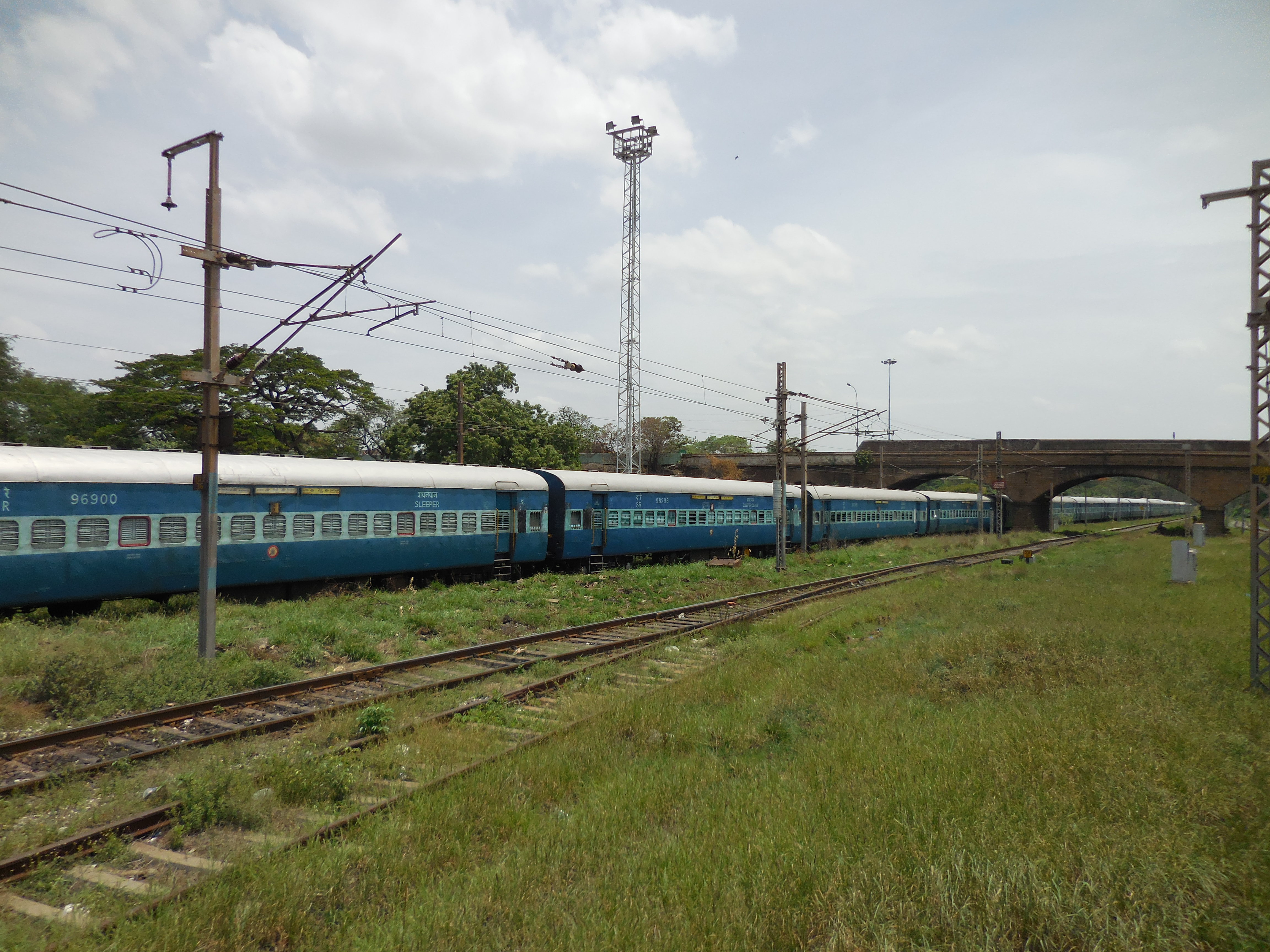 Stone bridge near Royapuram railway station, Chennai, towards west, taken on 15 July 2014 at noon.